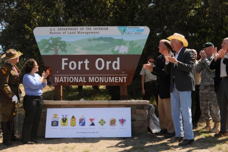 The Fort Ord National Monument park sign — unveiled by U.S. Department of the Interior Secretary Ken Salazar in 2012, at the former Fort Ord site in Monterey County, California.